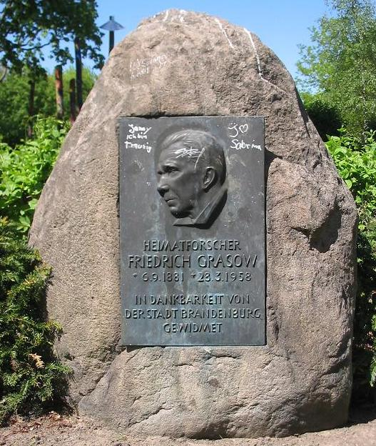 Memorial stone for the local historian Friedrich Grasow (born September 6, 1881; died March 23, 1958) in Brandenburg an der Havel, state Brandenburg, Germany.